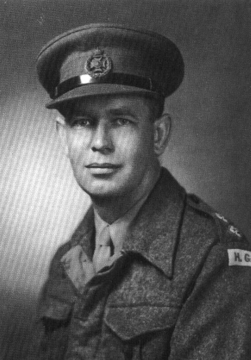 Lieutenant Percy Reginald Tucker of the Bermuda Home Guard and Bermuda Volunteer Rifle Corps (BVRC) in Bermuda, ca. 1944. Tucker had served in the BVRC (service number 469) from 1929 until 1937. He was on the BVRC Reserve (service number 893) from 1939 to 1940. He was appointed a Second-Lieutenant in the Home Guard in October, 1943.